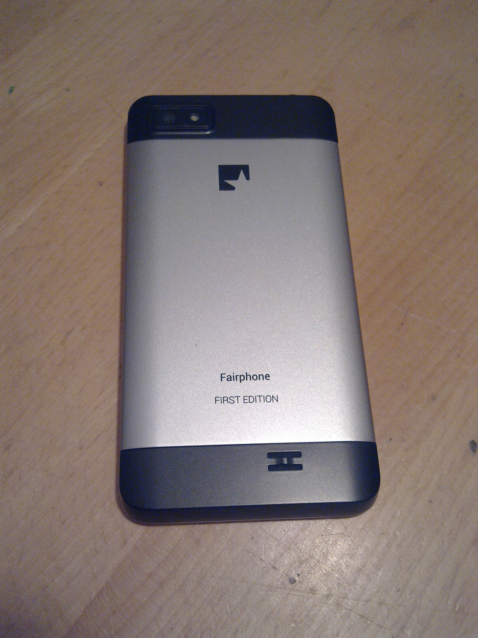 first edition fairphone (2013)